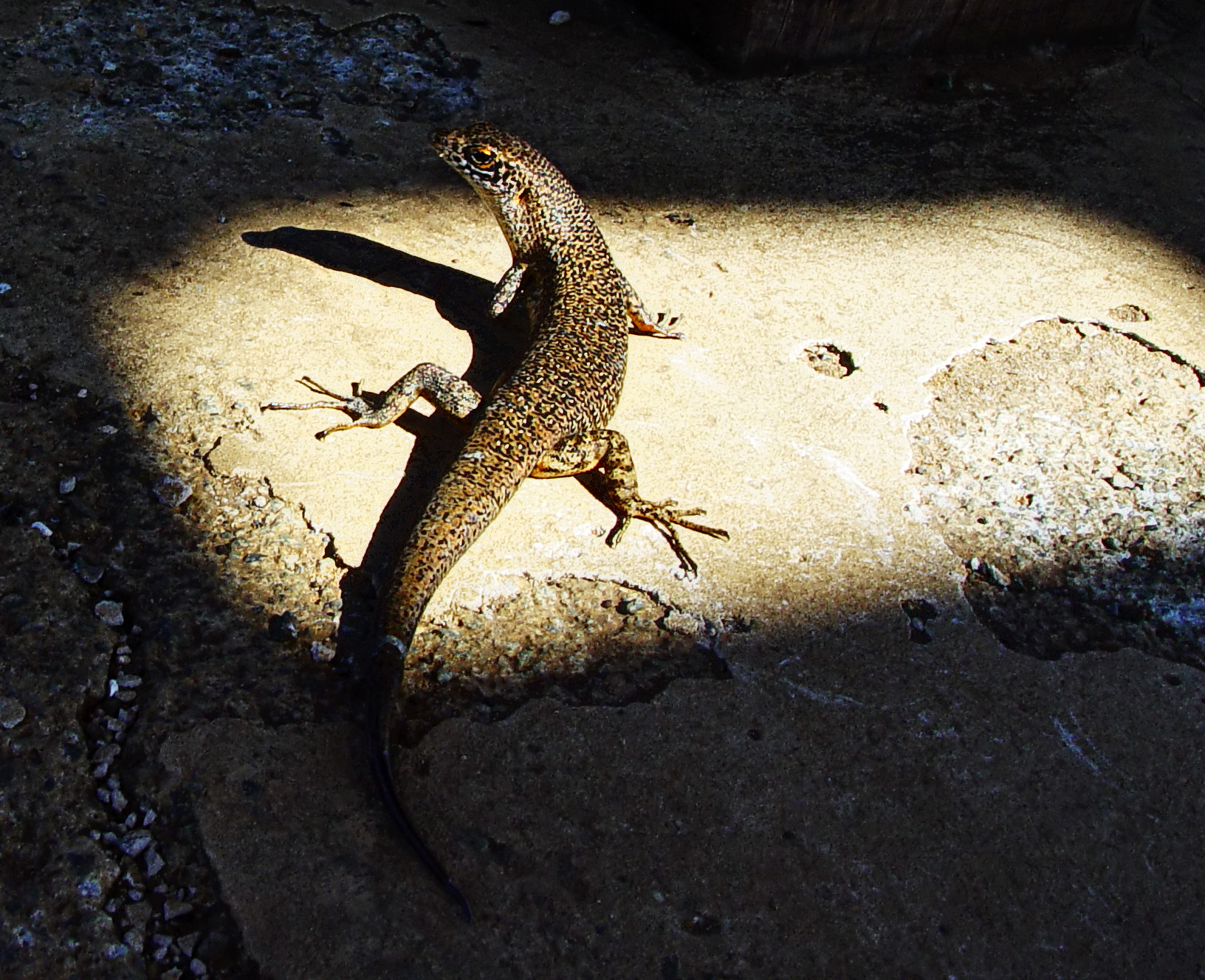 Noronha skink (Trachylepis atlantica) on Fernando de Noronha island, Brazil, basking in the sun. Original description: "Na Ilha de Fernando de Noronha não existe serpente, mas por toda parte, e particularmente no pé das falésias da Praia do Sancho e da Baía dos Porcos, encontra-se essas simpáticas lagartixas, que são endêmicas a Noronha. Curiosíssimas e aparentemente sempre famintas, eles se metem em qualquer lugar em busca de comida. Gostam particularmente de uma mochila aberta. Uma vez pegamos uma carona em um bugre (valeu, Marcelo) e, ao abrir o porta-luvas, apareceu a cabecinha de uma mabuia! Flagrei esta tomando sol perto da Praia do Leão . There are no snakes on Fernando de Noronha but everywhere on the island, and in particular at the foot of the cliffs surrounding Sancho Beach and the Bay of Pigs, you find these cute lizards, which are exclusive to the island. Very curious and apparently always hungry, they explore everywhere looking for food and are particularly fond of half-open rucksacks. Once we hitched a lift in a buggy and, on opening the glove compartment, out popped the head of one of these guys. This one was basking near Praia do Leão (Lion Beach)"